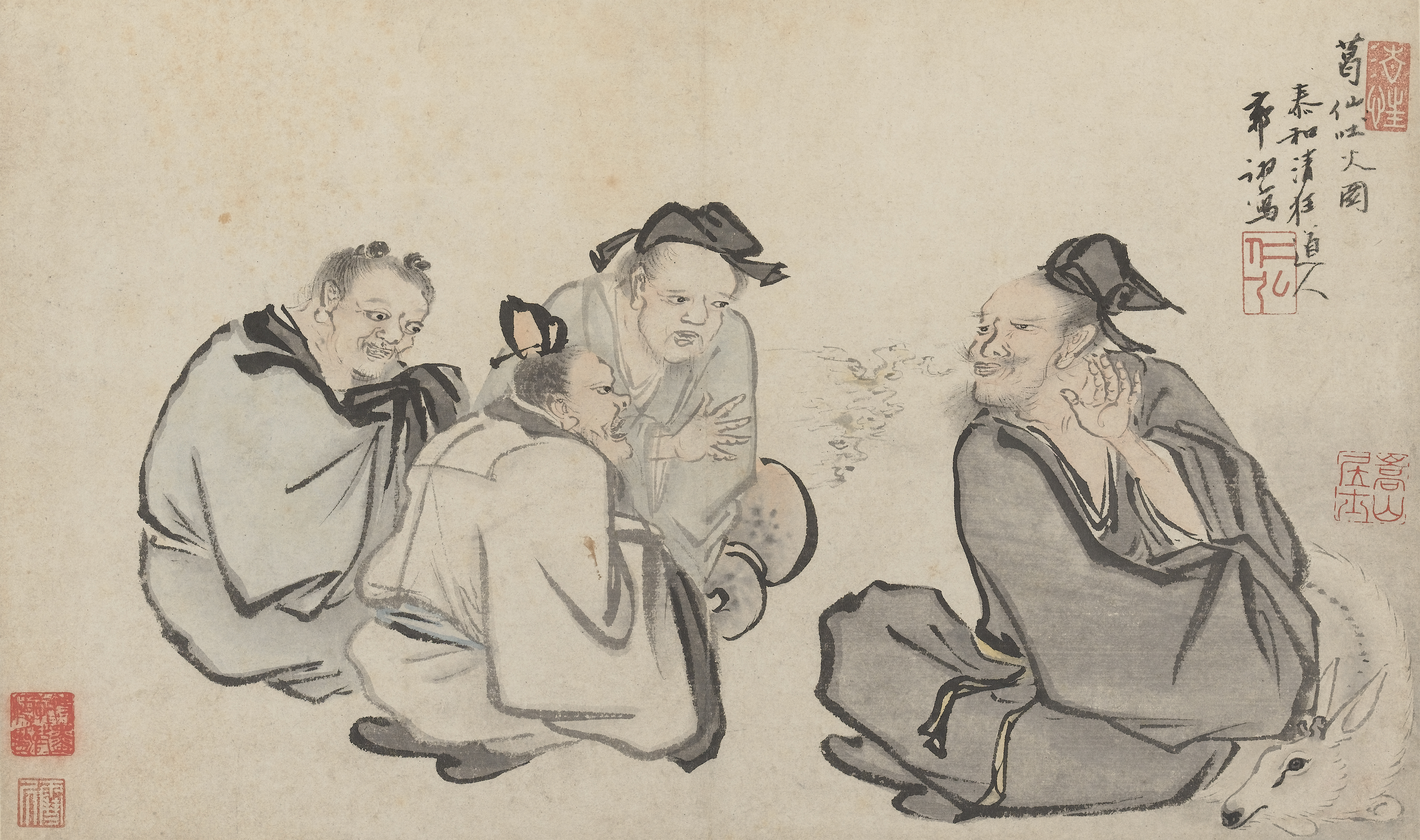 This painting depicts the immortal Ge Xuan as he breathes fire. He was a Daoist master of the third century.